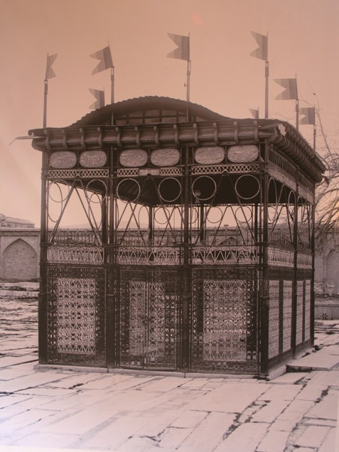 It is a photo of the tomb of Hafez (poet) in Shiraz (Iran) from the time of Qajar dynasty. The photo is old and out of copyright.